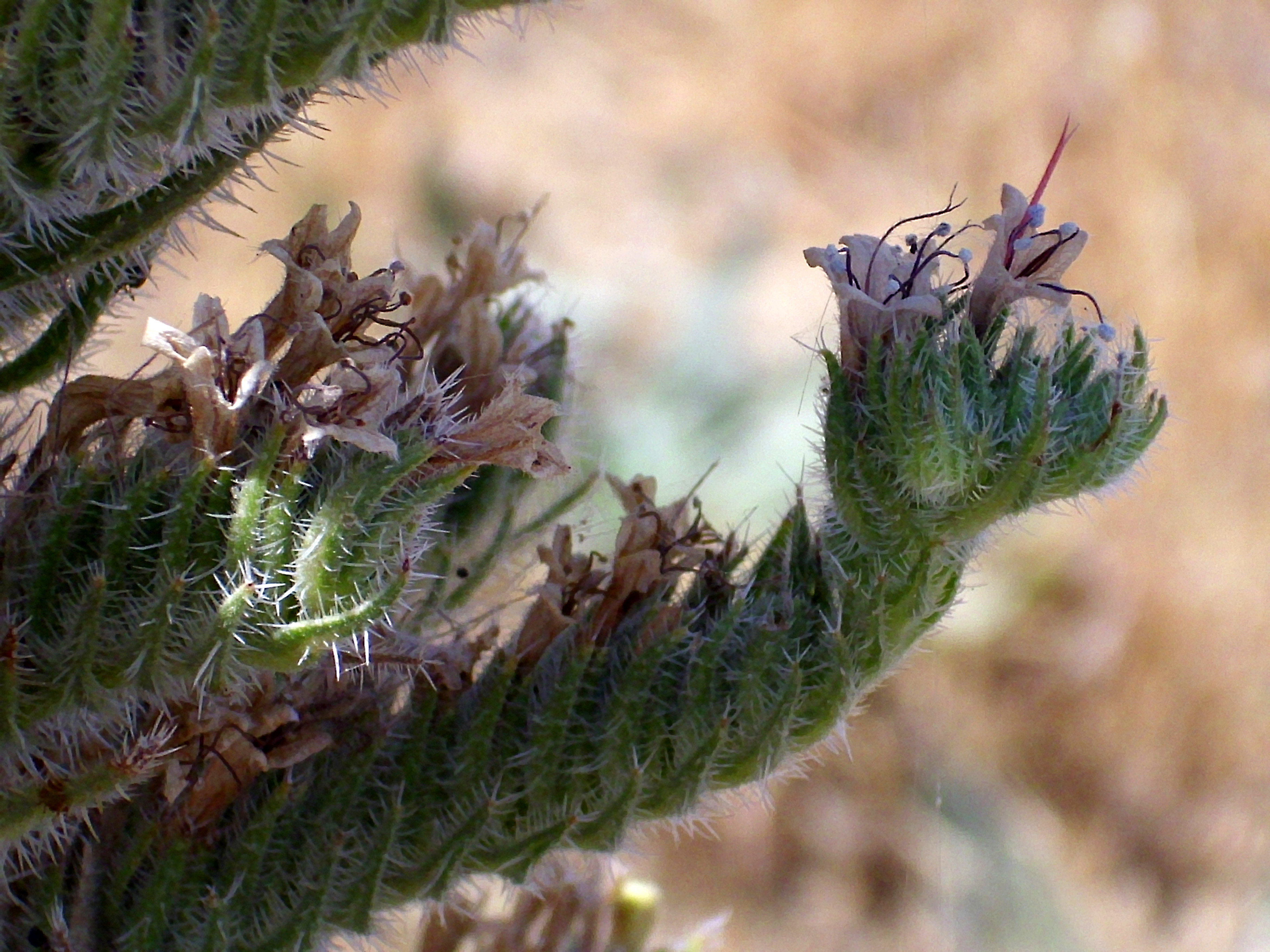 Echium boissieri flowers close up, Mengibar, Jaen, Spain